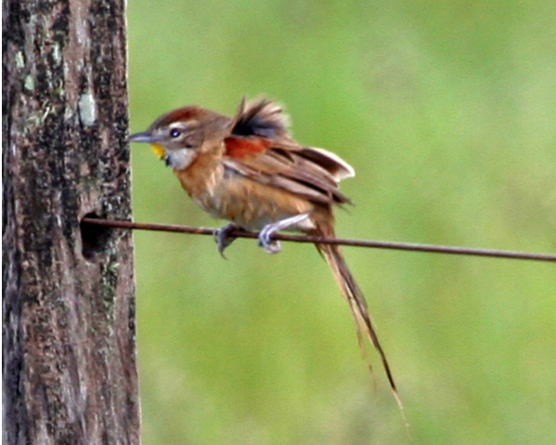 Chotoy Spinetail (Schoeniophylax phryganophilus) at Islas del Ibicuy, Entre Rios, Argentina.